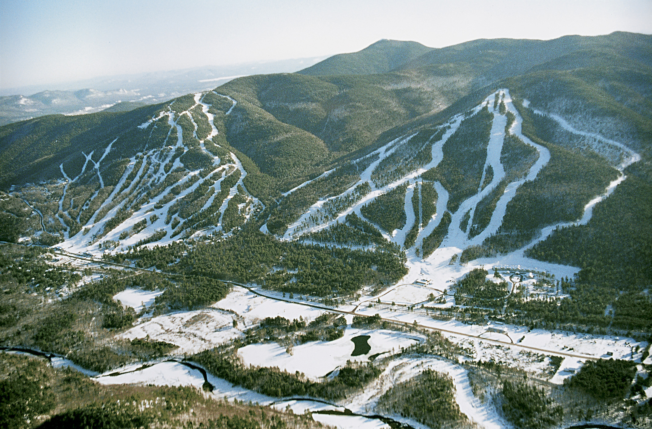 aerial shot of attitash